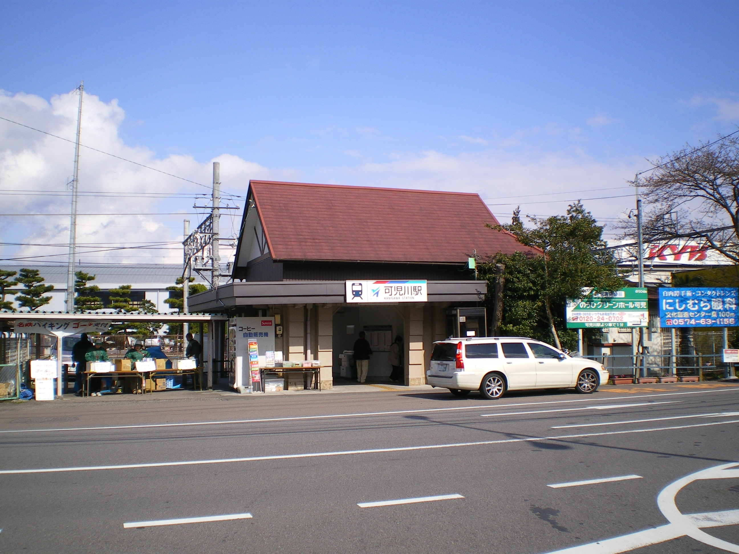 Nagoya Railroad Hiromi Line Kanigawa Station Building